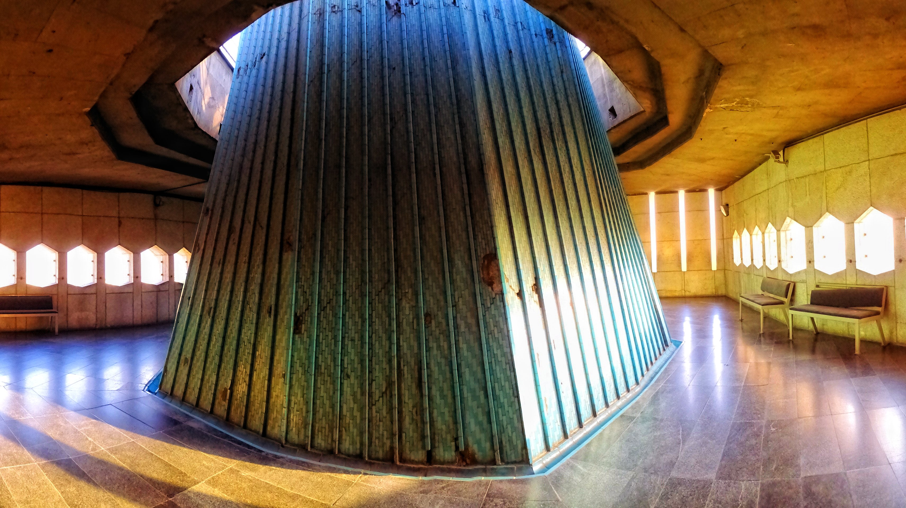 Showing the inside of the viewing floor at the top of the Azadi Tower in Tehran, Iran. In 2016 the lack of maintenance is visible.